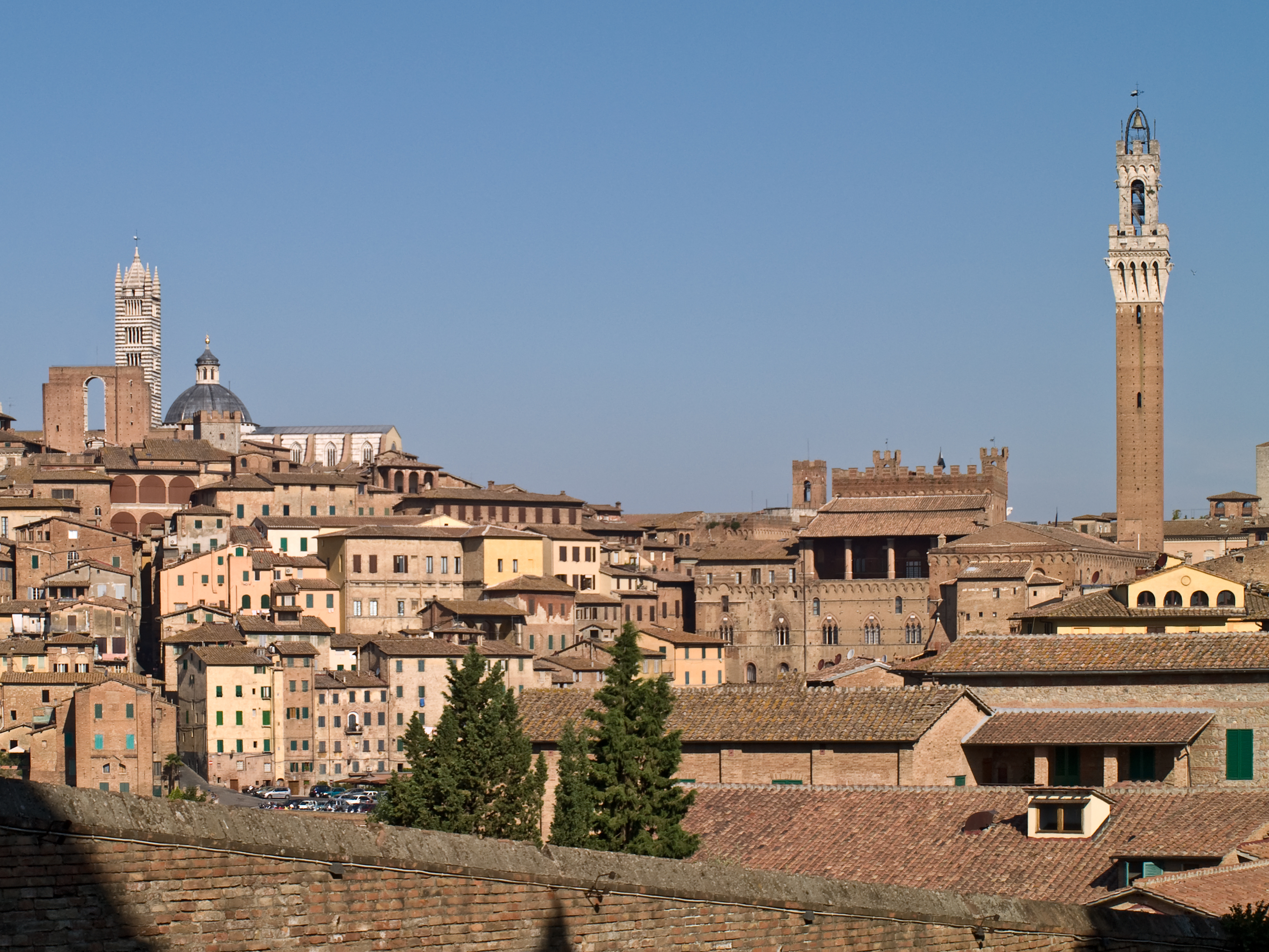 Siena, seen from Santa Maria dei Servi. On the left, top of the hill, the cathedral of Siena (Santa Maria Assunta or Duomo di Siena) and the Facciatone. On the right, the back of the Palazzo Pubblico and the Torre del Mangia.